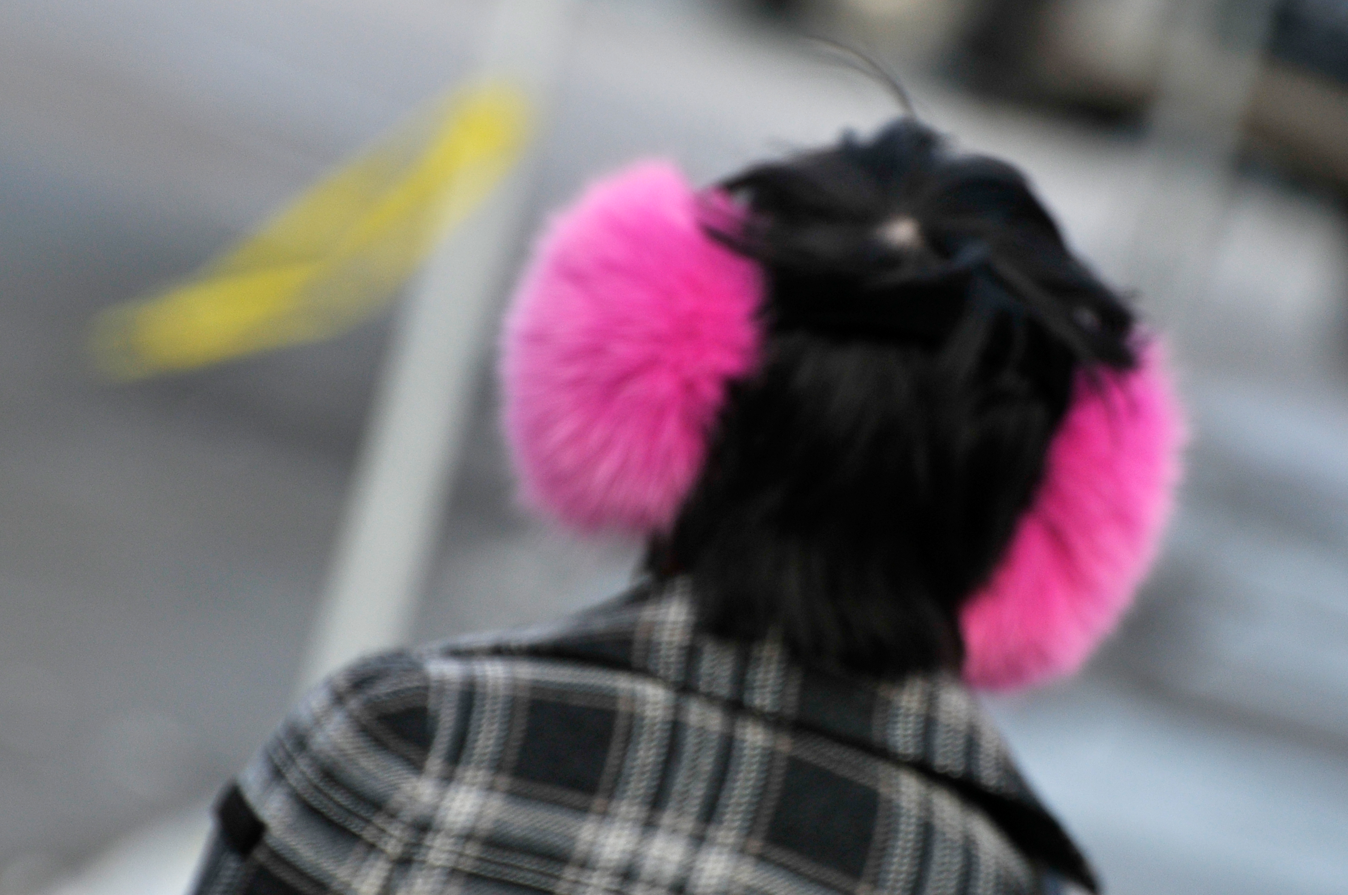 Pink ear muffs.